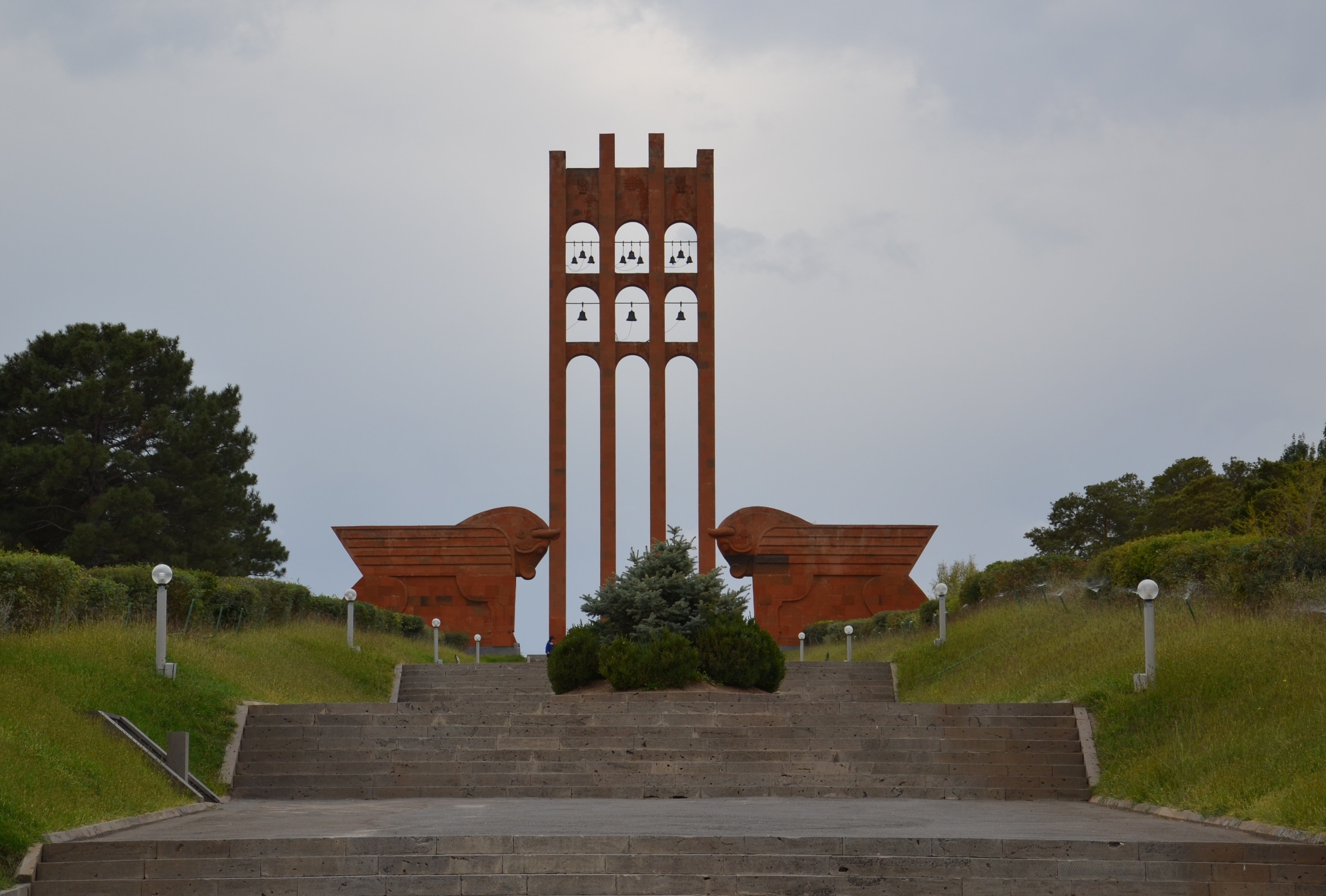 Memorial "Sardarapat", 1968, Armavir